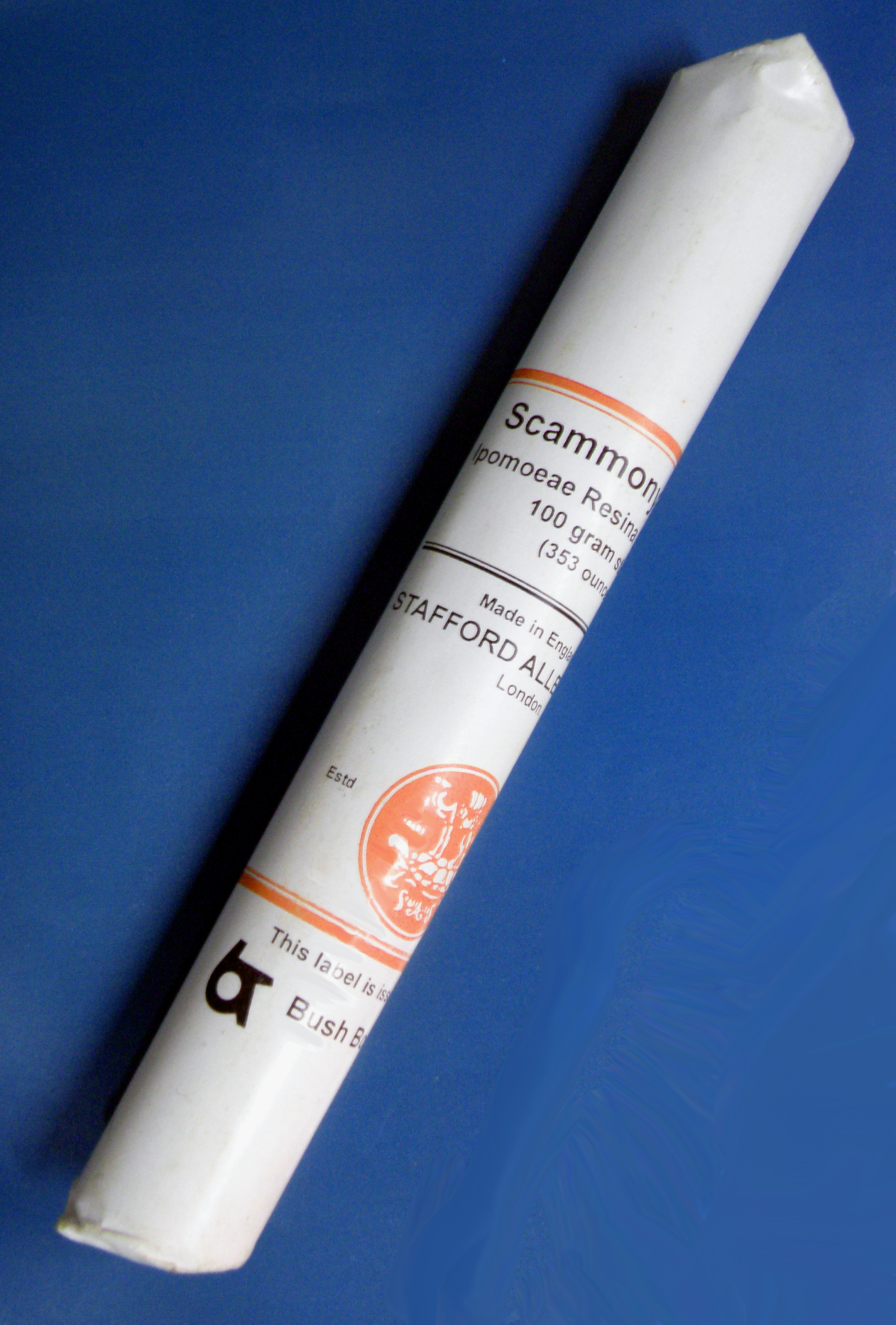 Scammony resin, stafford Allen & sons brand, England.